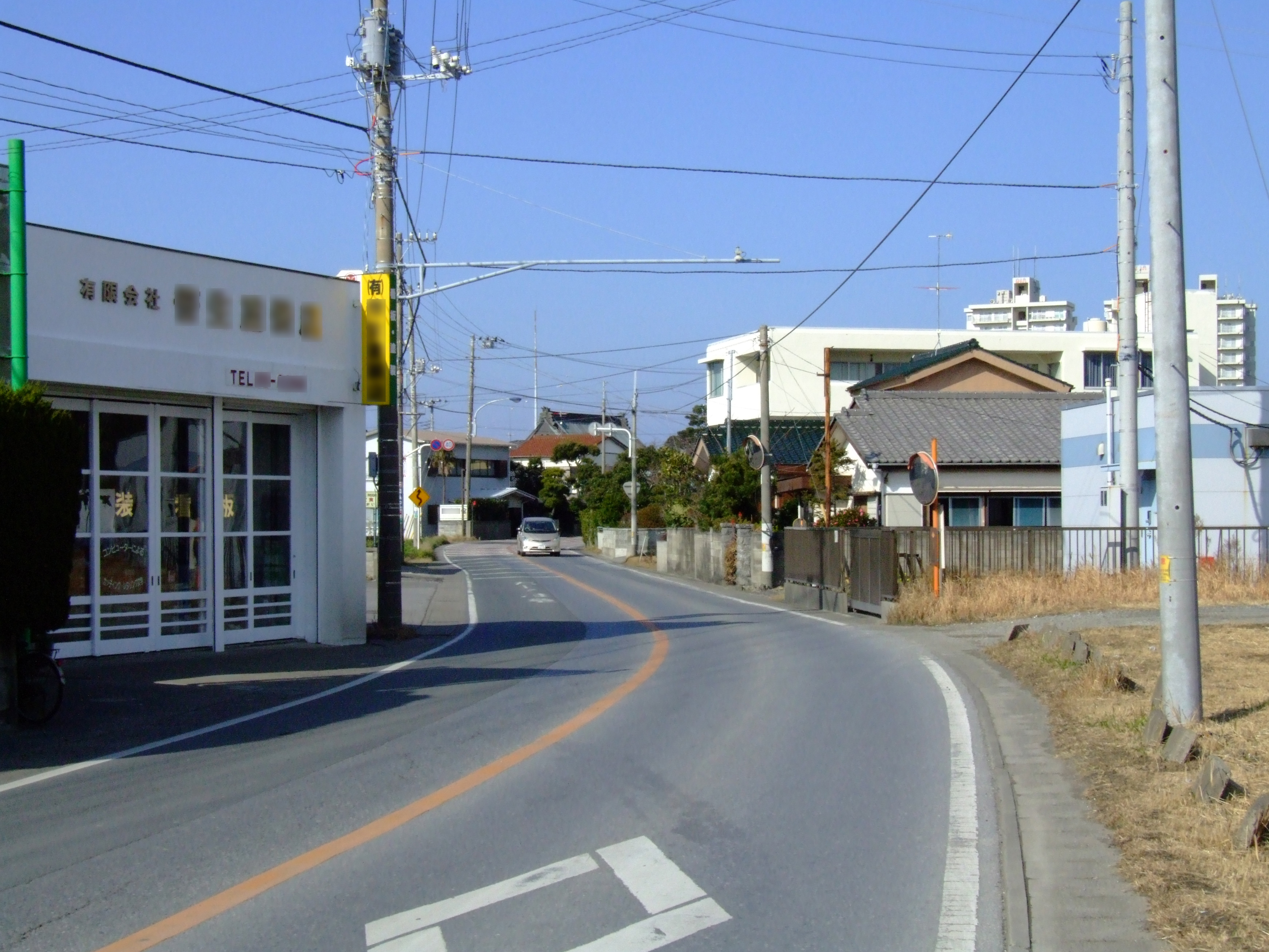 Japanese National Route 127 at Kyonan, Chiba, Japan